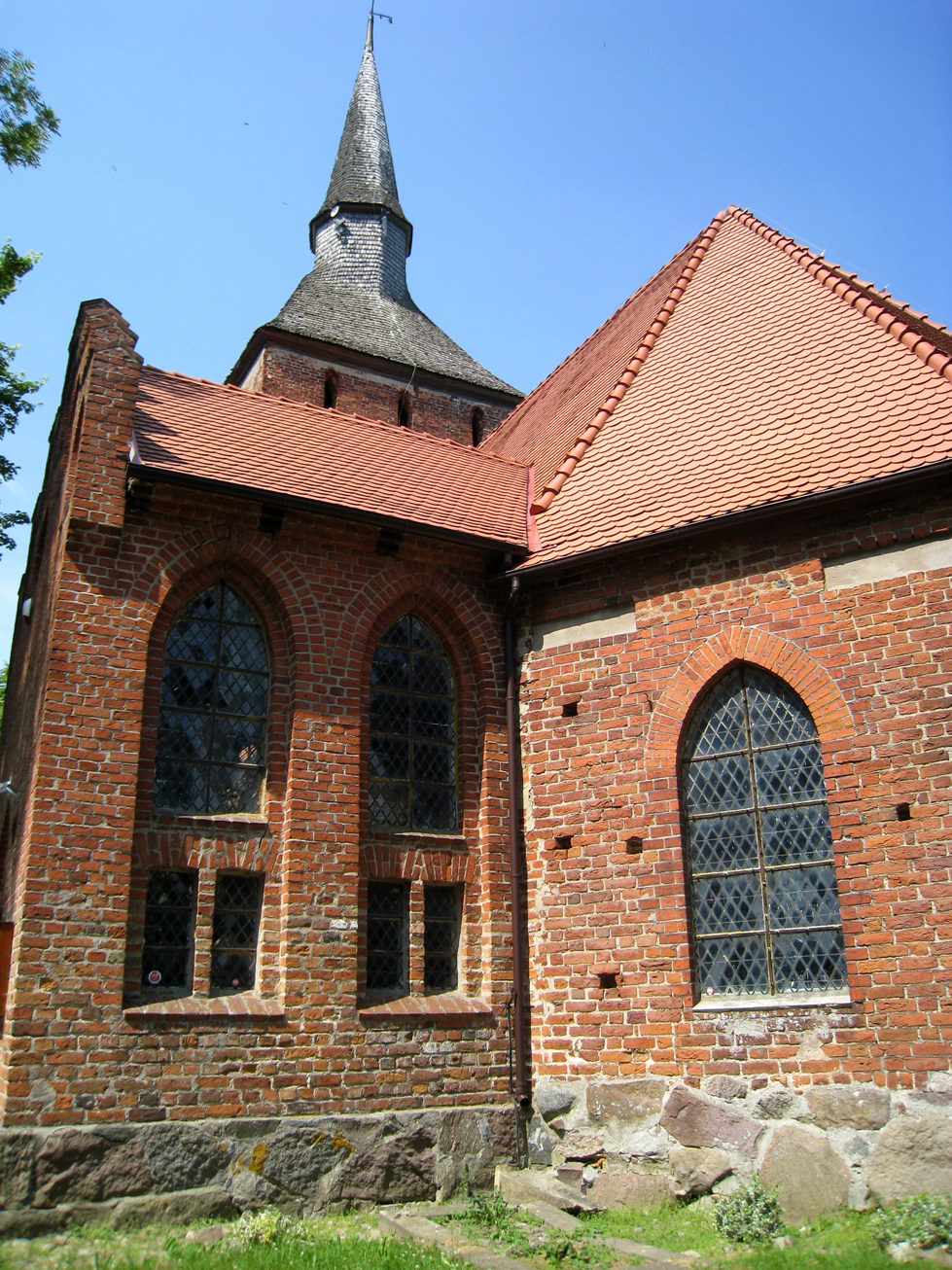 Saint Stanislaus Kostka church in Cisowo, Poland